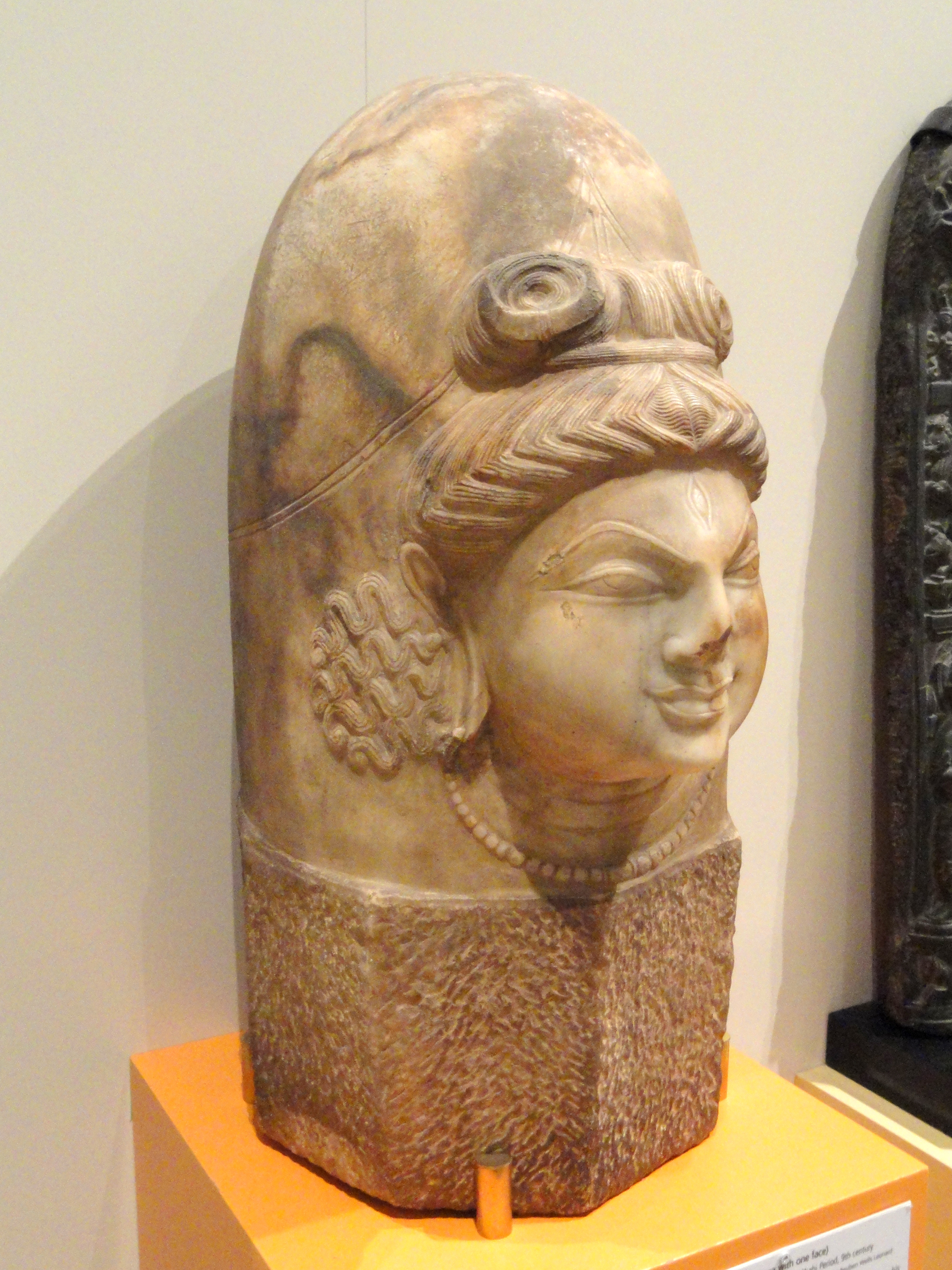 Exhibit in the Royal Ontario Museum, Toronto, Ontario, Canada. This exhibit is old enough so that it is in the public domain, and photography was permitted in the museum. I took this photograph and release it into the public domain.